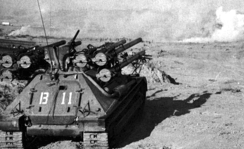 A U.S. Marine Corps M50 Ontos during an exercise, circa 1963.